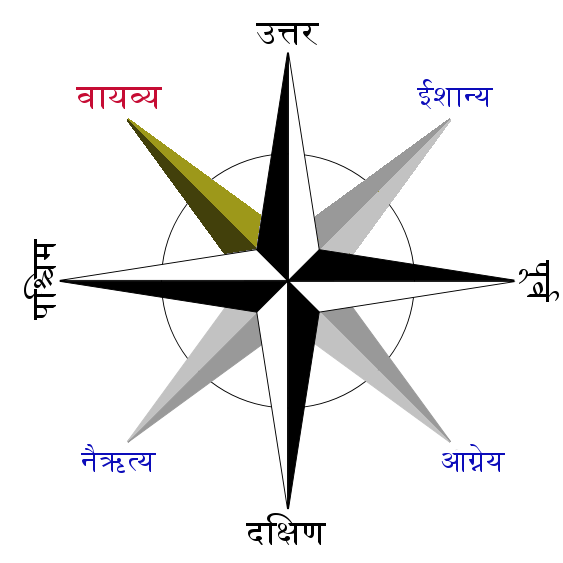 Southwest